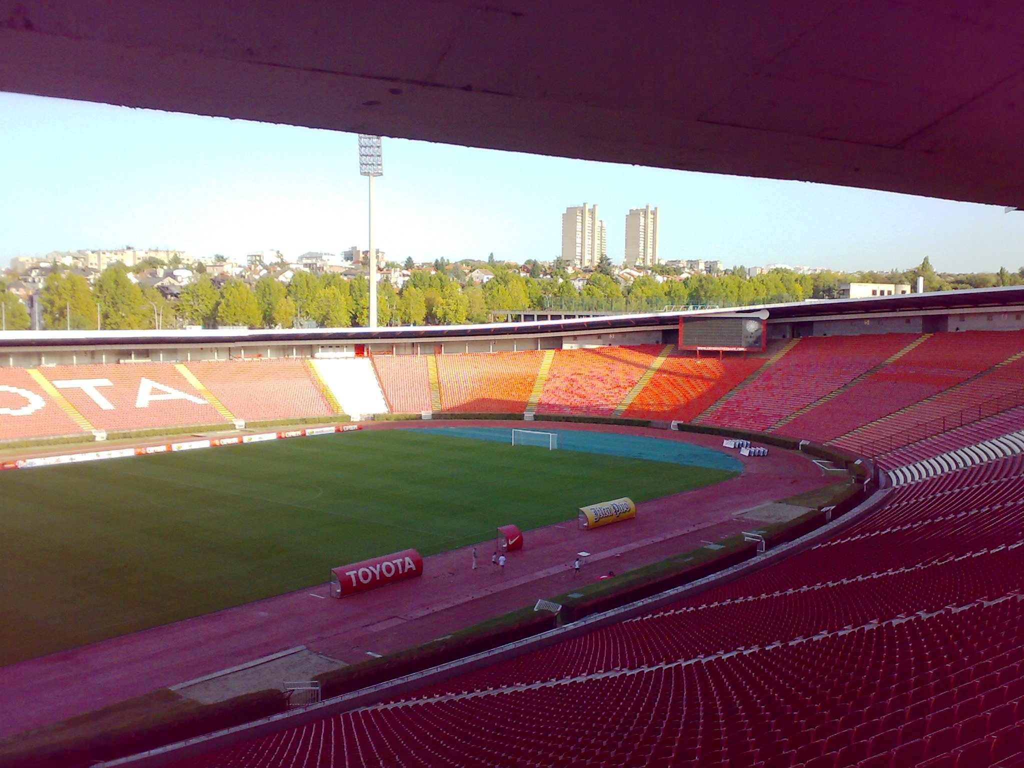 Red Star stadium in Belgrade, Serbia